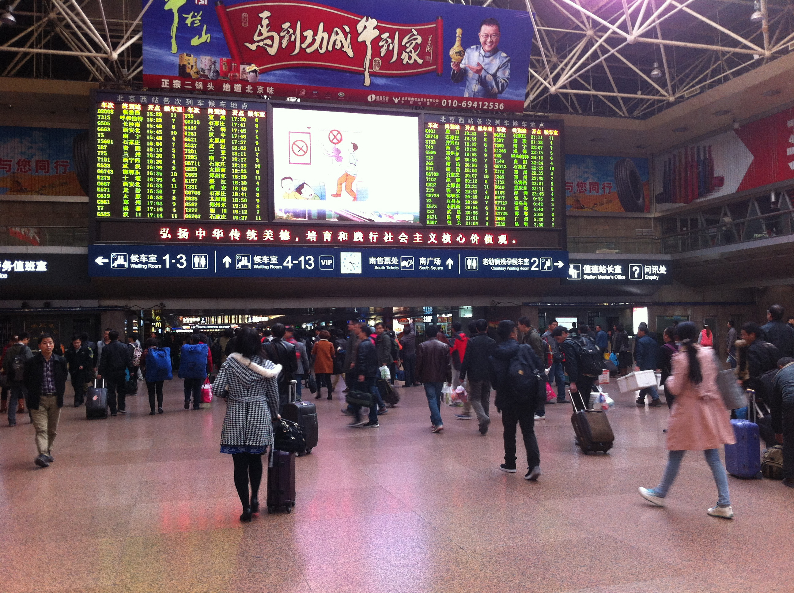 Below the train information screen are expressions of 'core socialist values'.